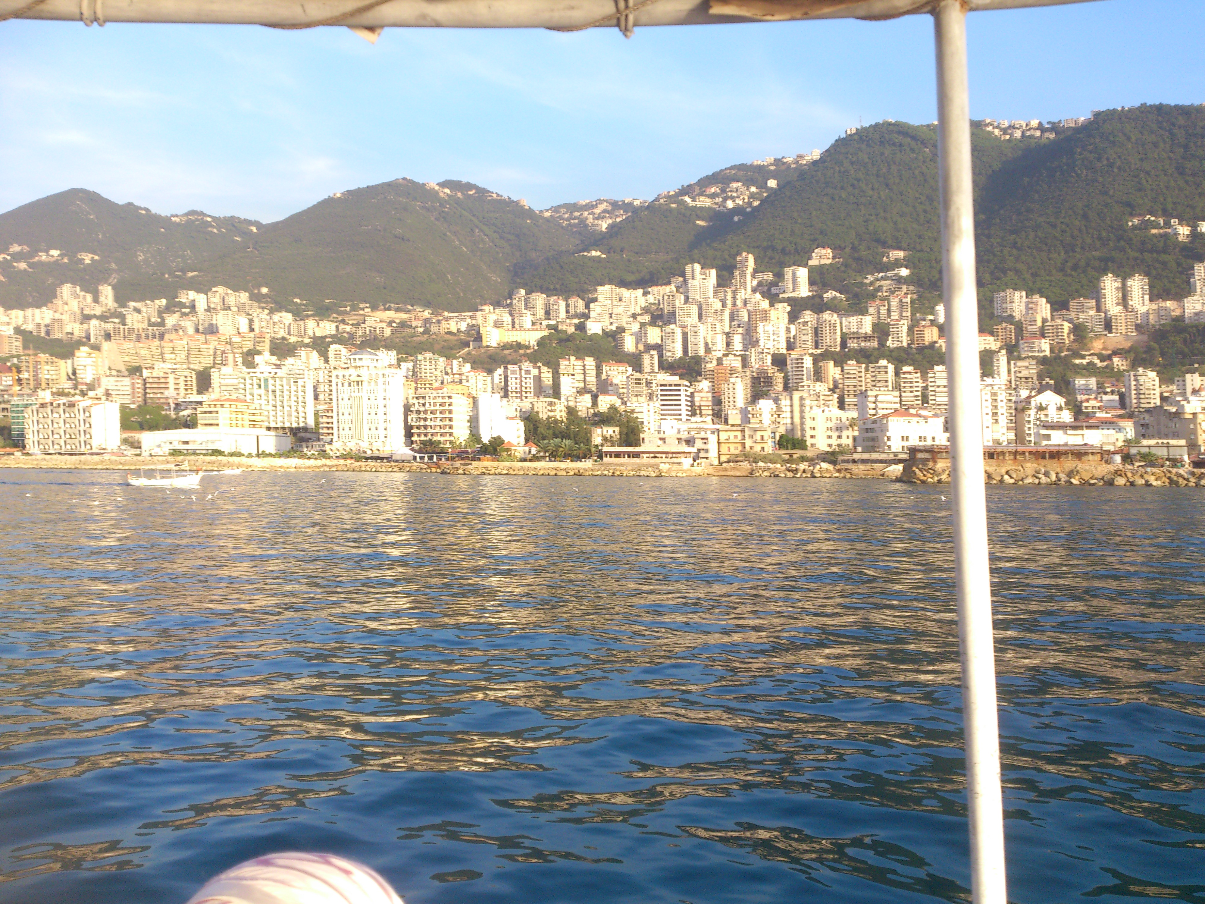 I took this picture of the Lebanese coastline, Oct 2012, while sailing on a boat!